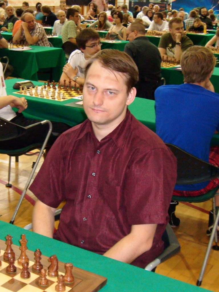 Grandmaster Ilmars Starostits playing in the Najdorf Memorial in Warsaw (Poland)